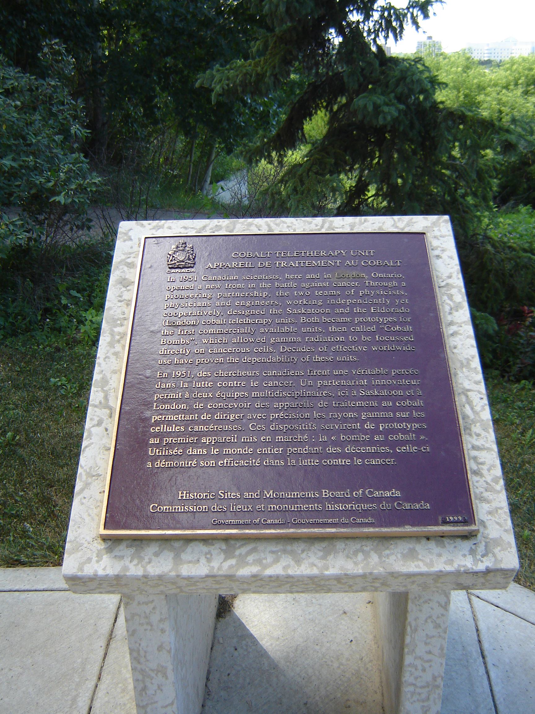 Cobalt Teletherapy Unit historical research. College of Medicine - University of Saskatchewan U of S Saskatoon Saskatchewan Canada